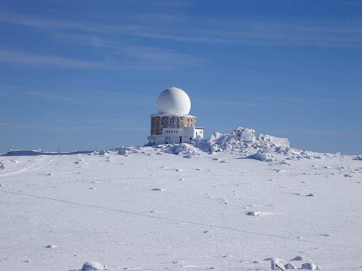 The Air Traffic Services facility on Golyam Rezen Peak from Cherni Vrah, Vitosha Mountain, Bulgaria. Photograph by Nikolay Rainov published in under Creative Commons license 2.5.